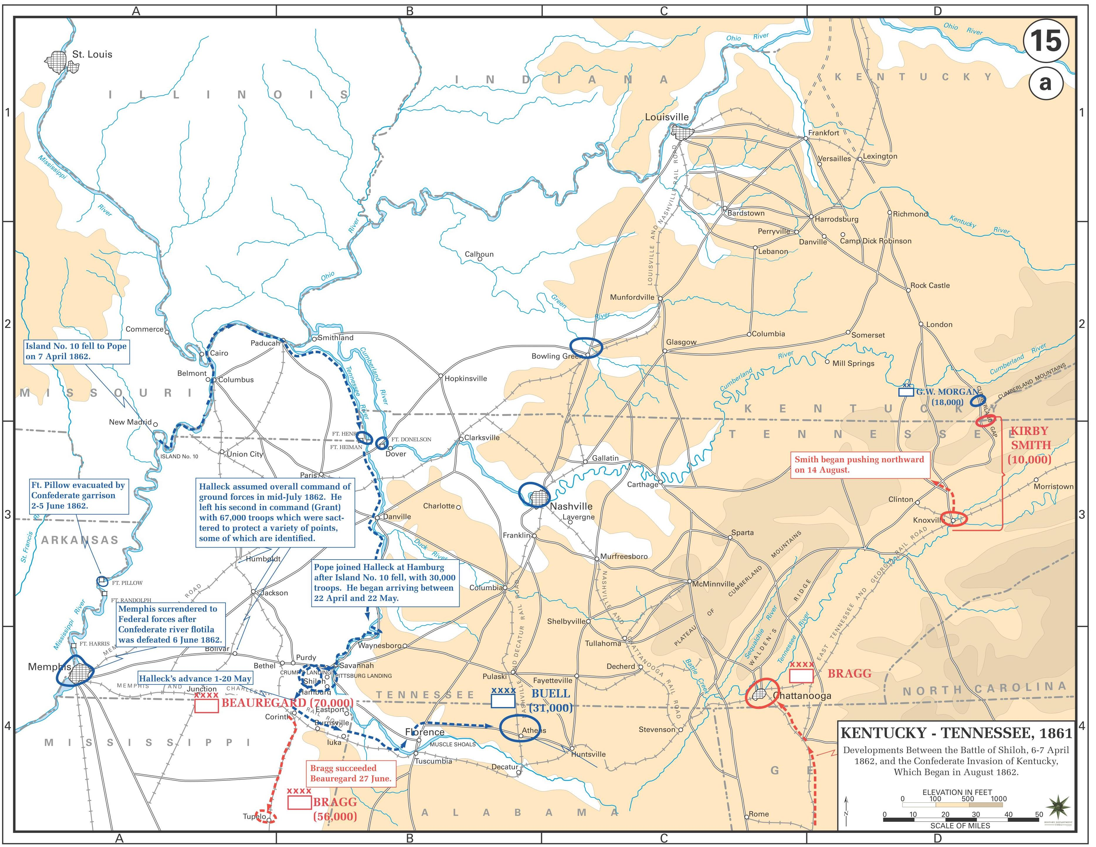 Western Theater: movements April-August 1862 (map 2).